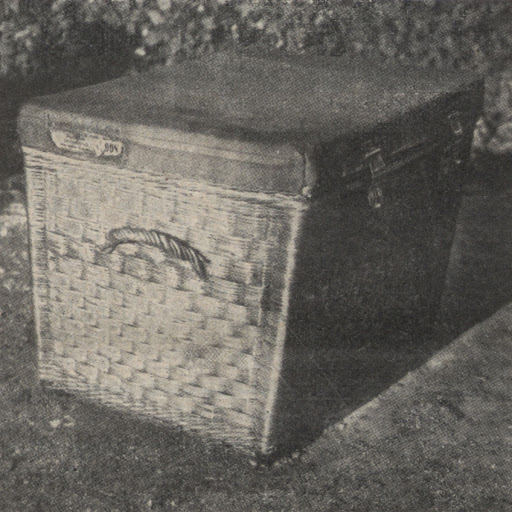 Basket trunk of Elsa the Magnate